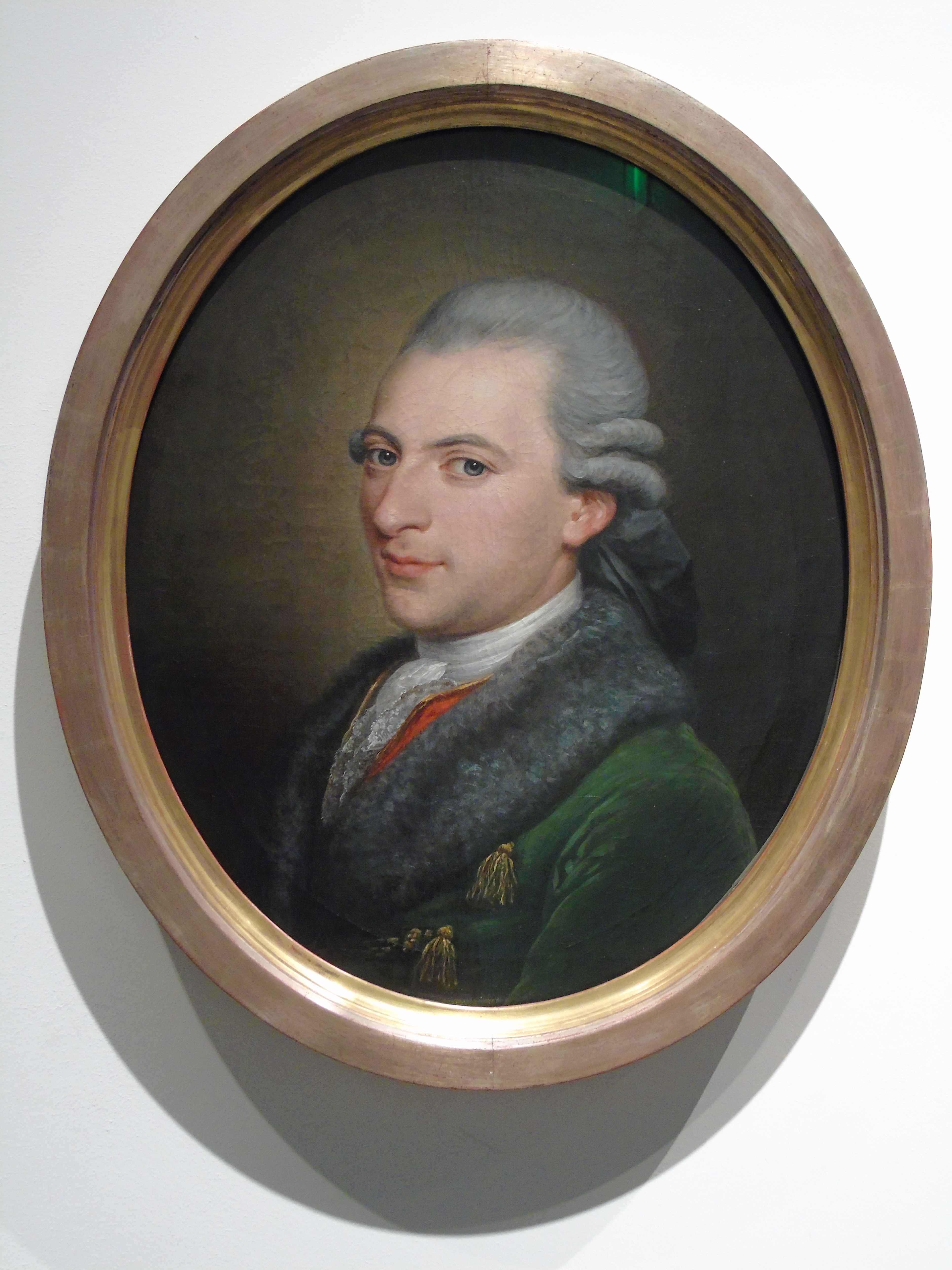 Isaac Daniel Itzig, portrait from Johann Christoph Frisch, Berlin (1777)